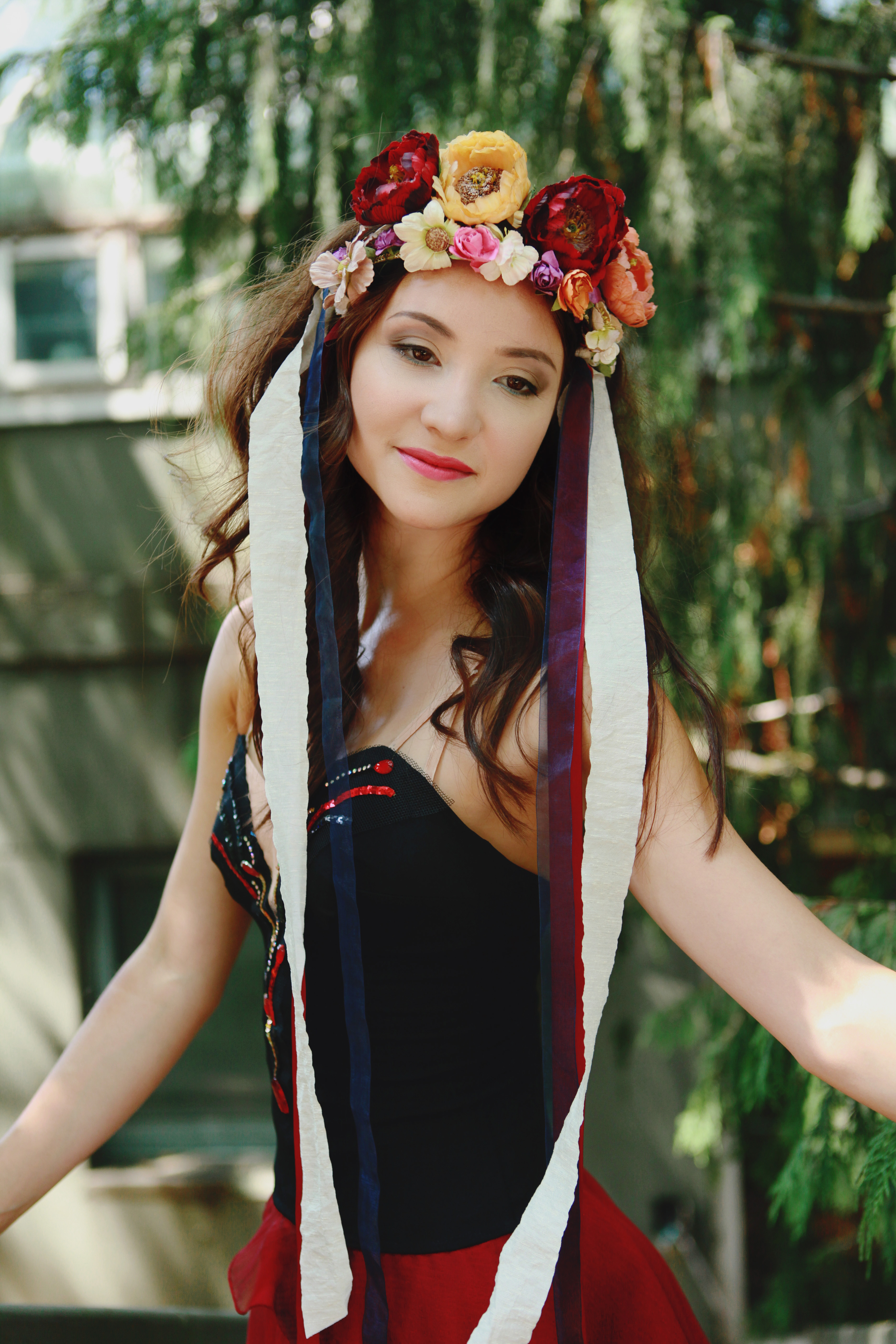 Christine Shevchenko